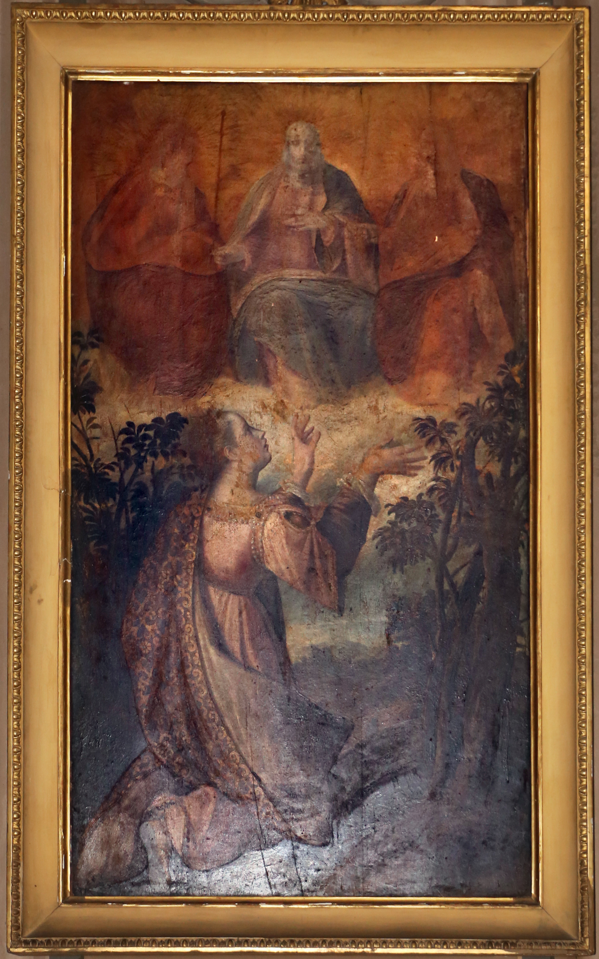 Cathedral (Ferrara) - Interior